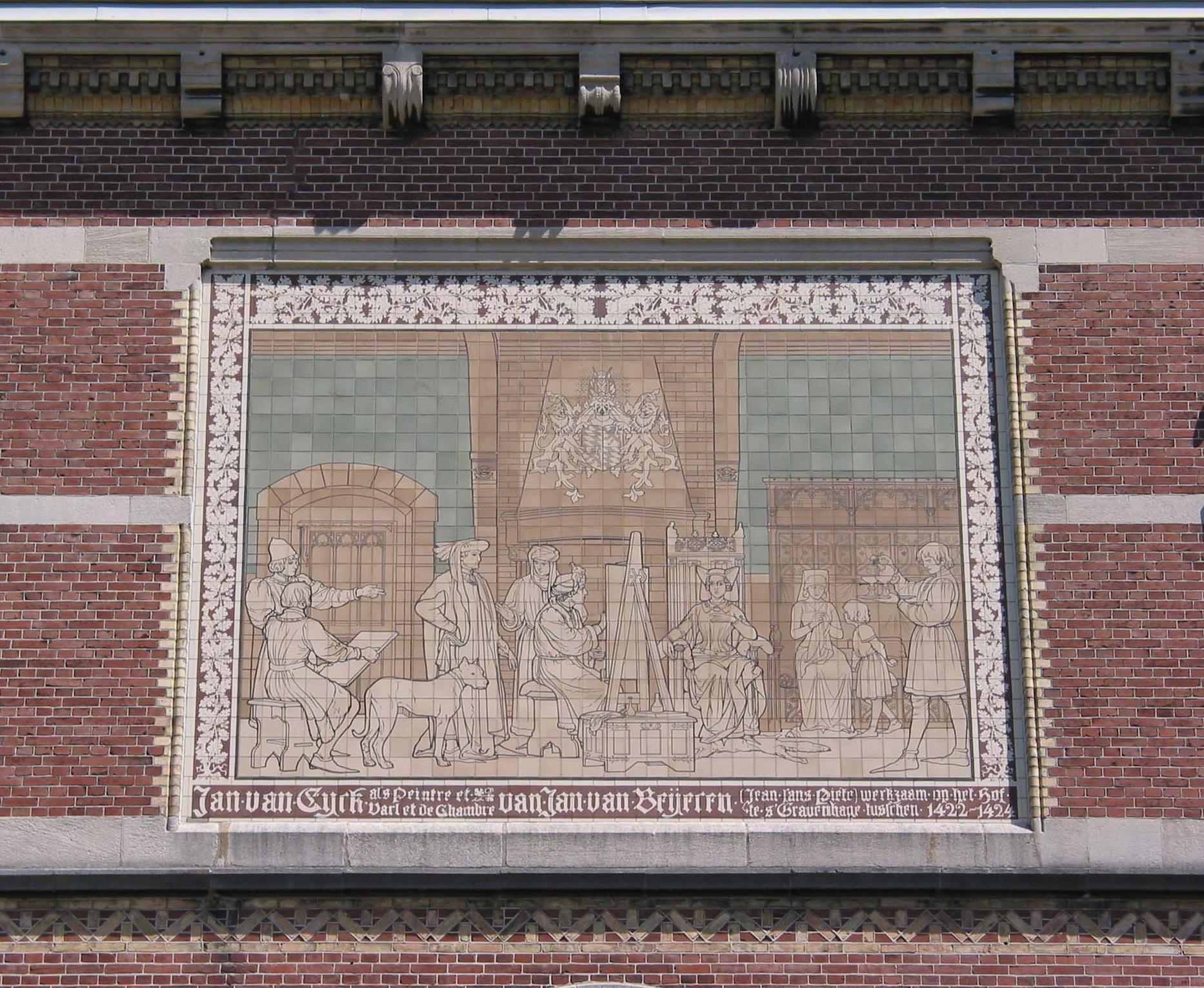 Tile picure 'Jan van Eyck as Peintre et varlet de Chambre of John of Bavaria (Jean sans Piete) employed at the Court at The Hague between 1422-1424'.